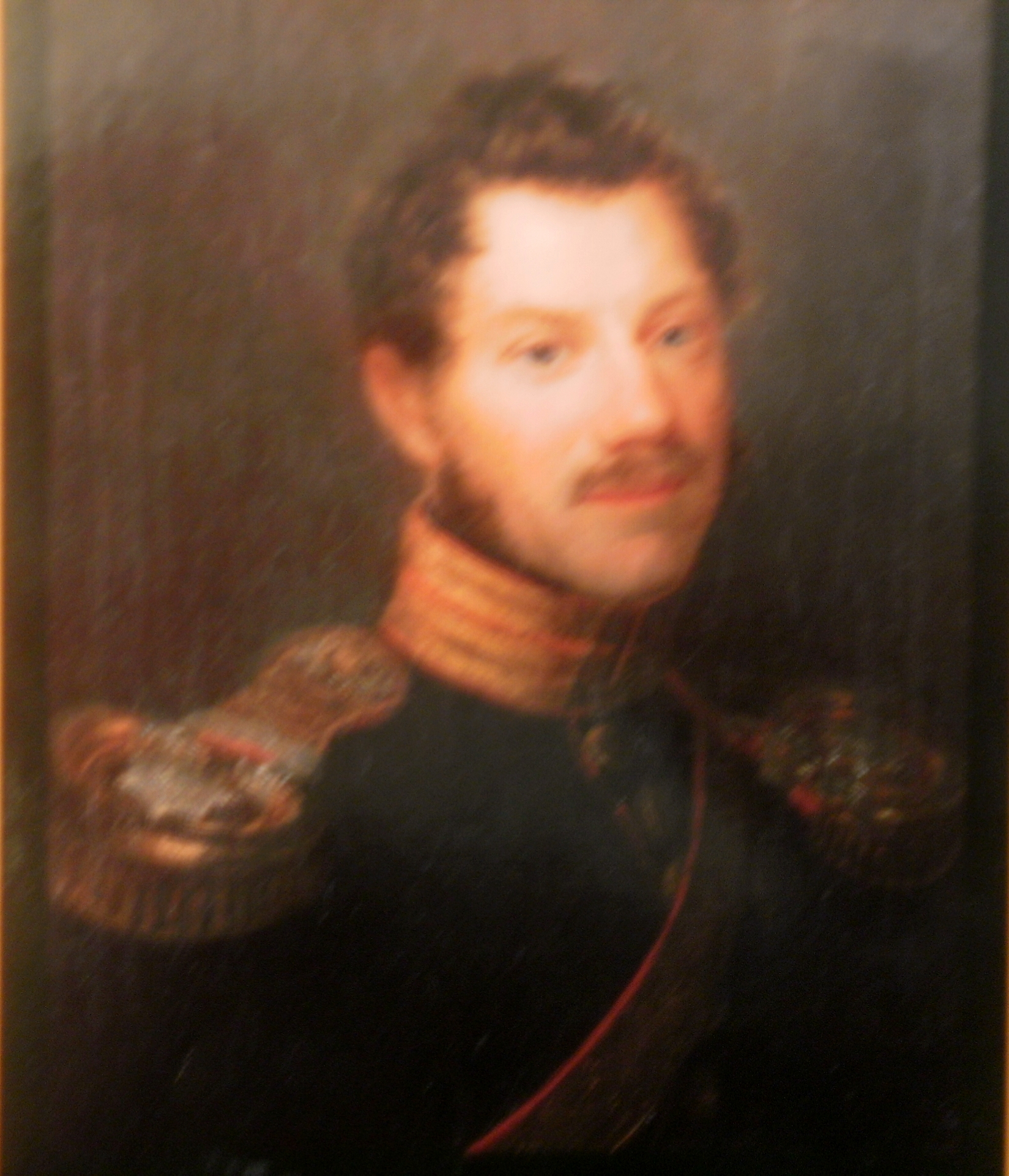 William